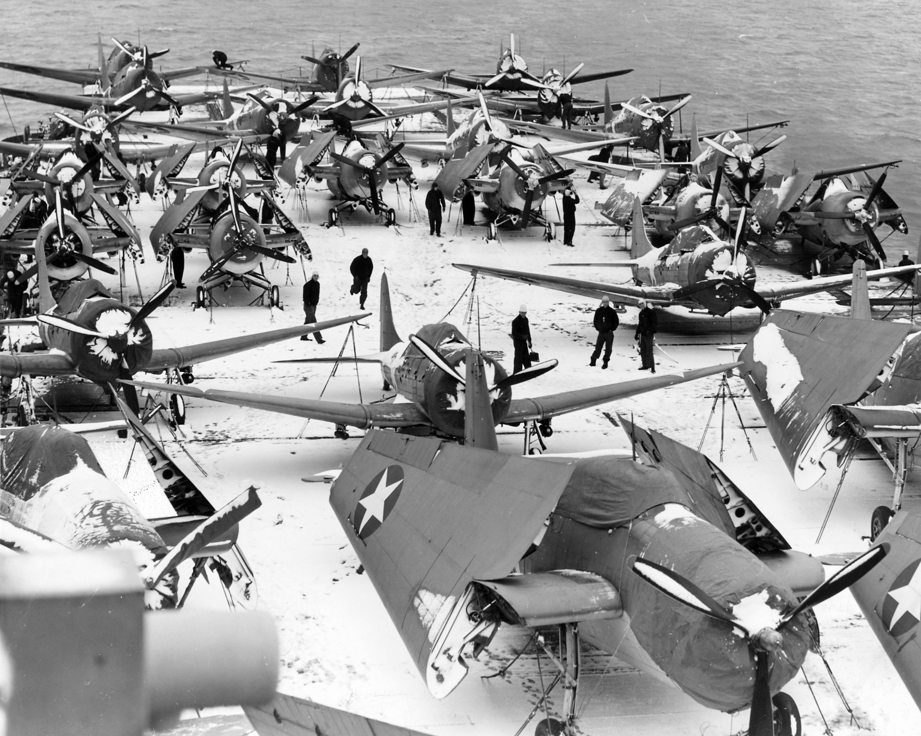 U.S. Navy aircraft of Carrier Air Group 4 (CVG-4) on deck of the aircraft carrier USS Ranger (CV-4) during operations in the North Atlantic on 29 June 1943. In front are Grumman TBF-1 Avengers from Torpedo Squadron VT-4, followed by Grumman F4F-4 Wildcats from Fighting Squadron VF-41 Red Rippers; Douglas SBD-5 Dauntless from Bombing Squadron VB-41 Tophatters are parked on the end of the flight deck.